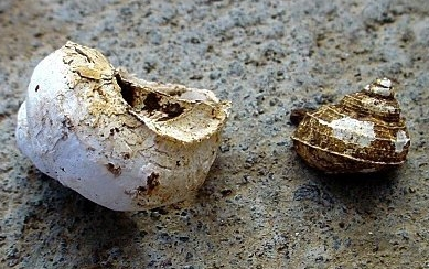 Extinct endemic landsnail (Tropidophora carinata) from Reunion Island, Bruniquel Cave, La Saline les Hauts